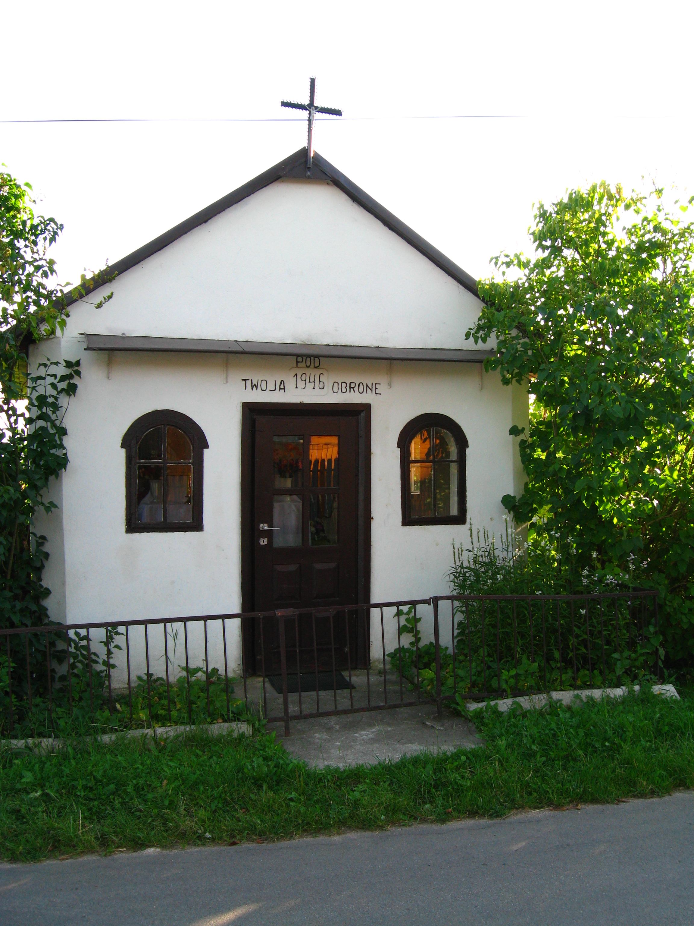 Chapel, Folwarki Małe, gmina Zabłudów